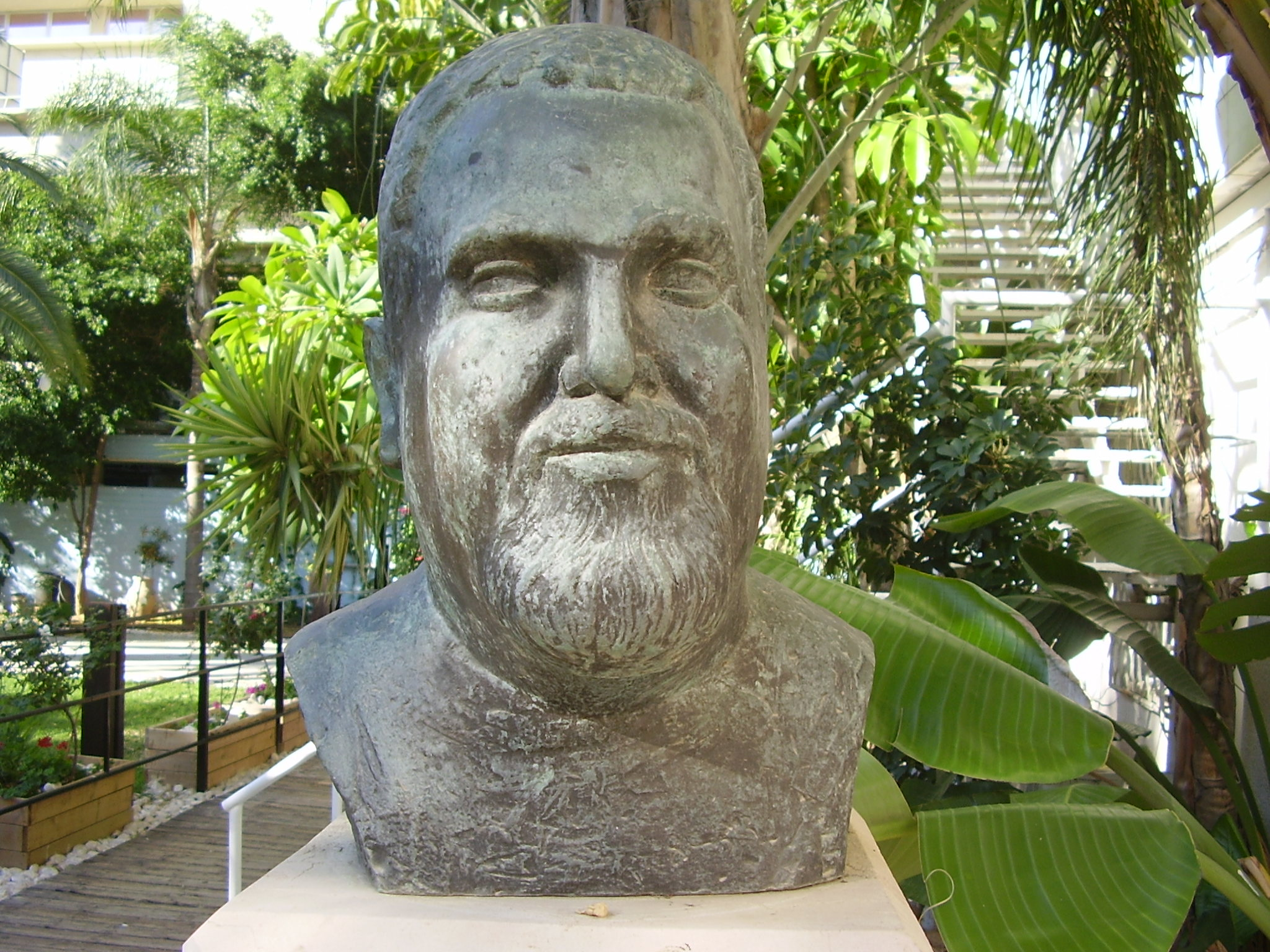 sculpture of the reporter Ilan Roeh, killed in Lebanon (1999), in sokolov journalists house in Tel Aviv